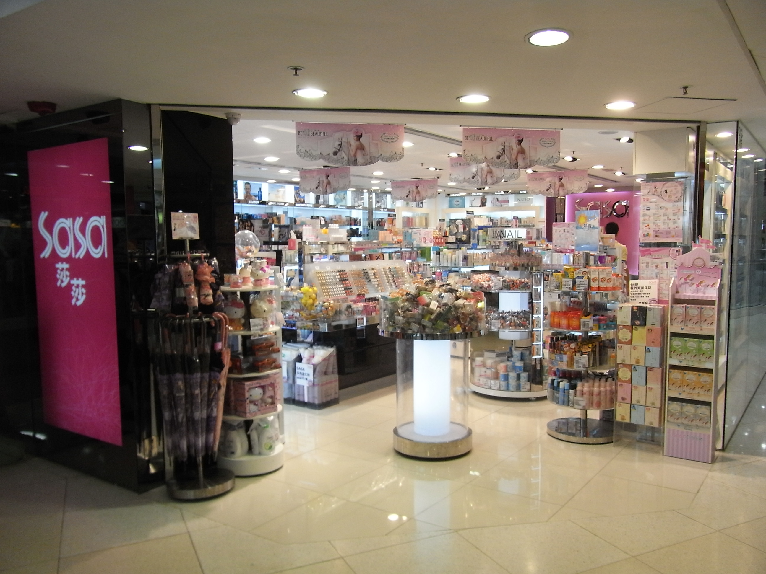 2012年9月zh:柴灣 新翠商場, New Jade Shopping Arcade, Chai Wan Road, Eastern District, Hong Kong